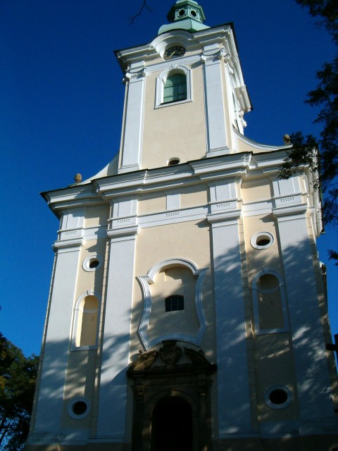 Church of St John the Baptist in Bzenec, Hodonín District, Czech Republic